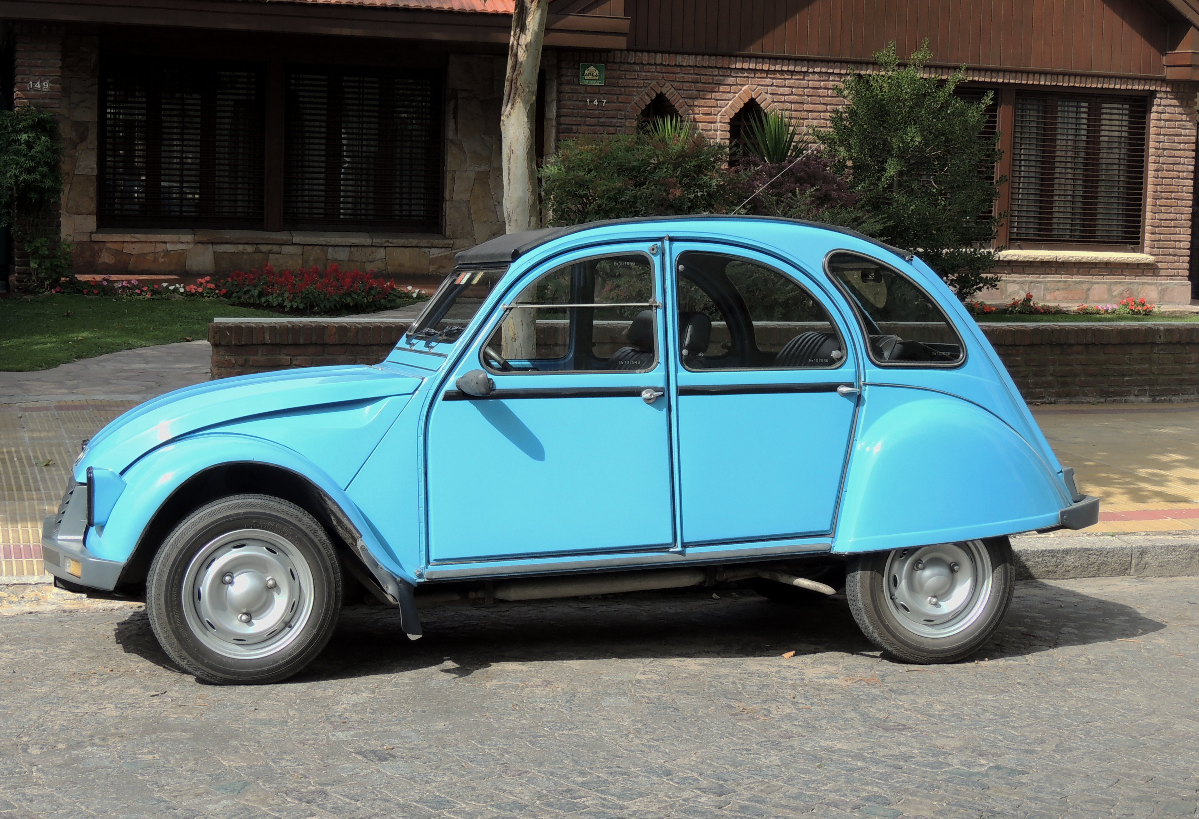 IES Super América (1987-89), based on the Citroën 2cv6.